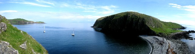 Panorama of Shiant Isles from Garbh Eilean: View shows the three Shiant Isles- Eilean Mhuire at left, Eilean Garbh in the foreground and Eilean an Tighe to the right, with the beach of Mol Mor below. The panorama is from E round to SW.